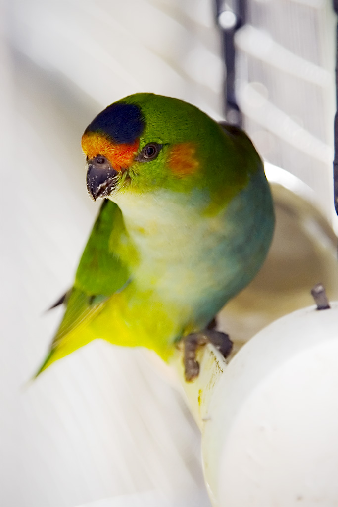 Purple-crowned Lorikeet (Glossopsitta porphyrocephala). Photo taken at the Rainbow Jungle in Kalbarri, Western Australia.